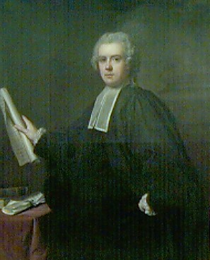 Francis Hargrave (c. 1741 – 1821) was an English lawyer, judge and antiquary.